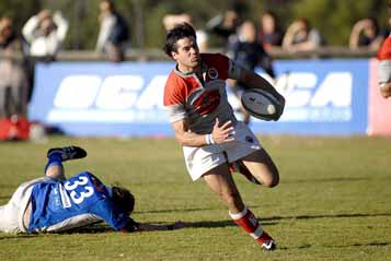 PSG rugby.